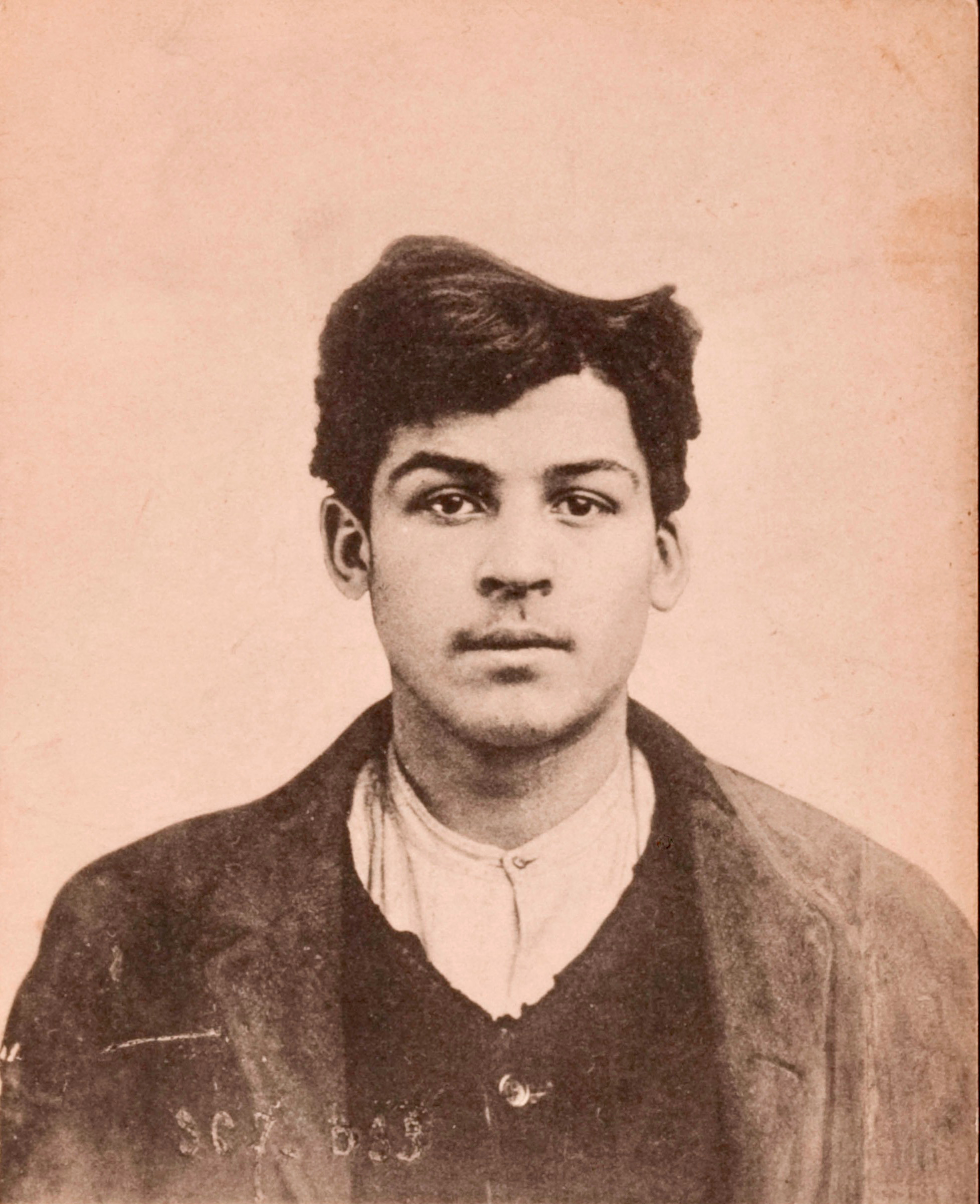 This photo of anarchist criminal Octave Garnier was likely taken during one of his many arrests which occurred between 1902 and 1910.